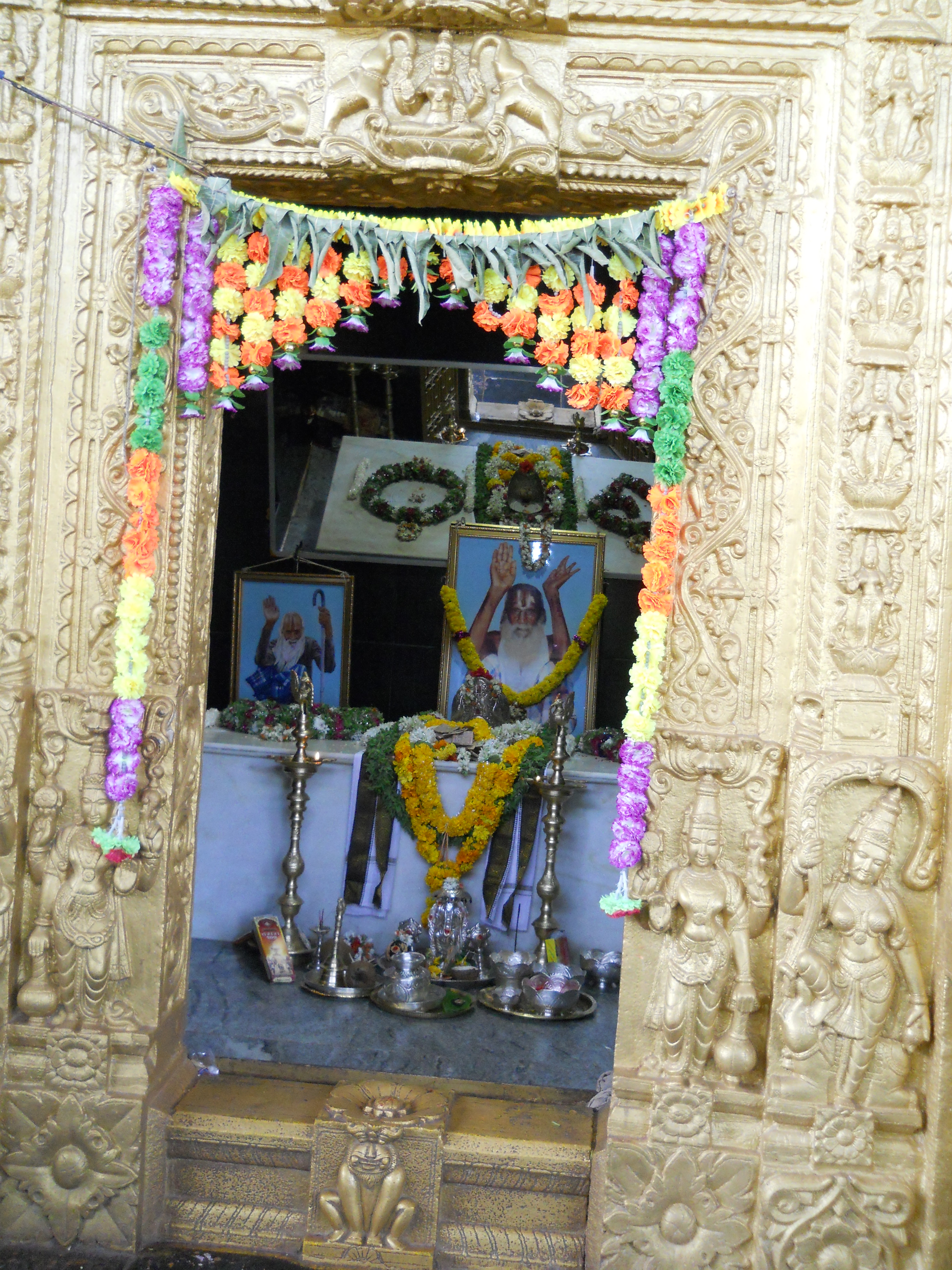 Sri Avadhuth Kasinayana Mandir, Jyothi, YSR district, A.P, India.